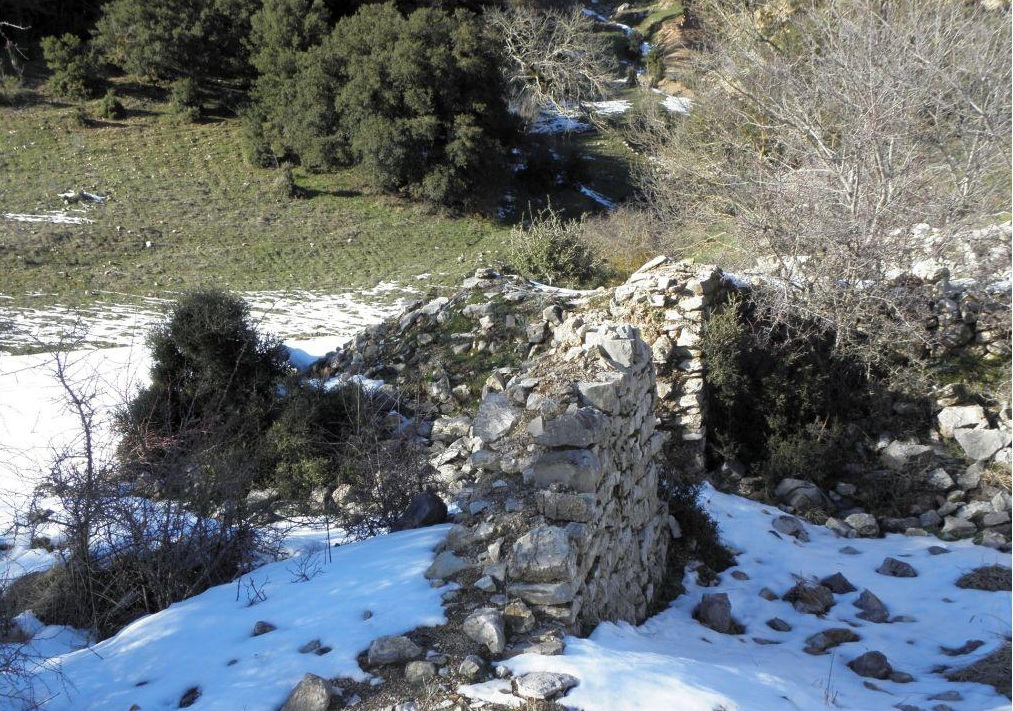 Snowy landscape in the ruins of Sapia Vrisi, abandoned village in Achaia, Greece; February 7, 2011.